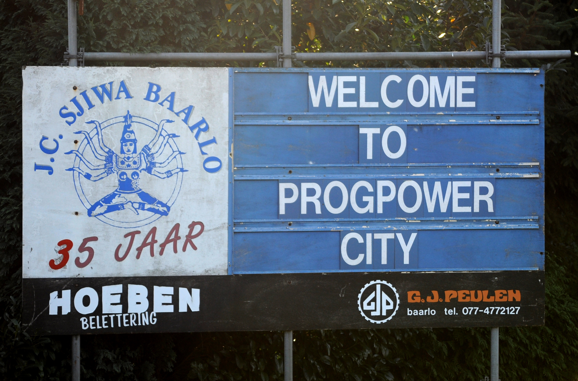 Baarlo - The ProgPower City